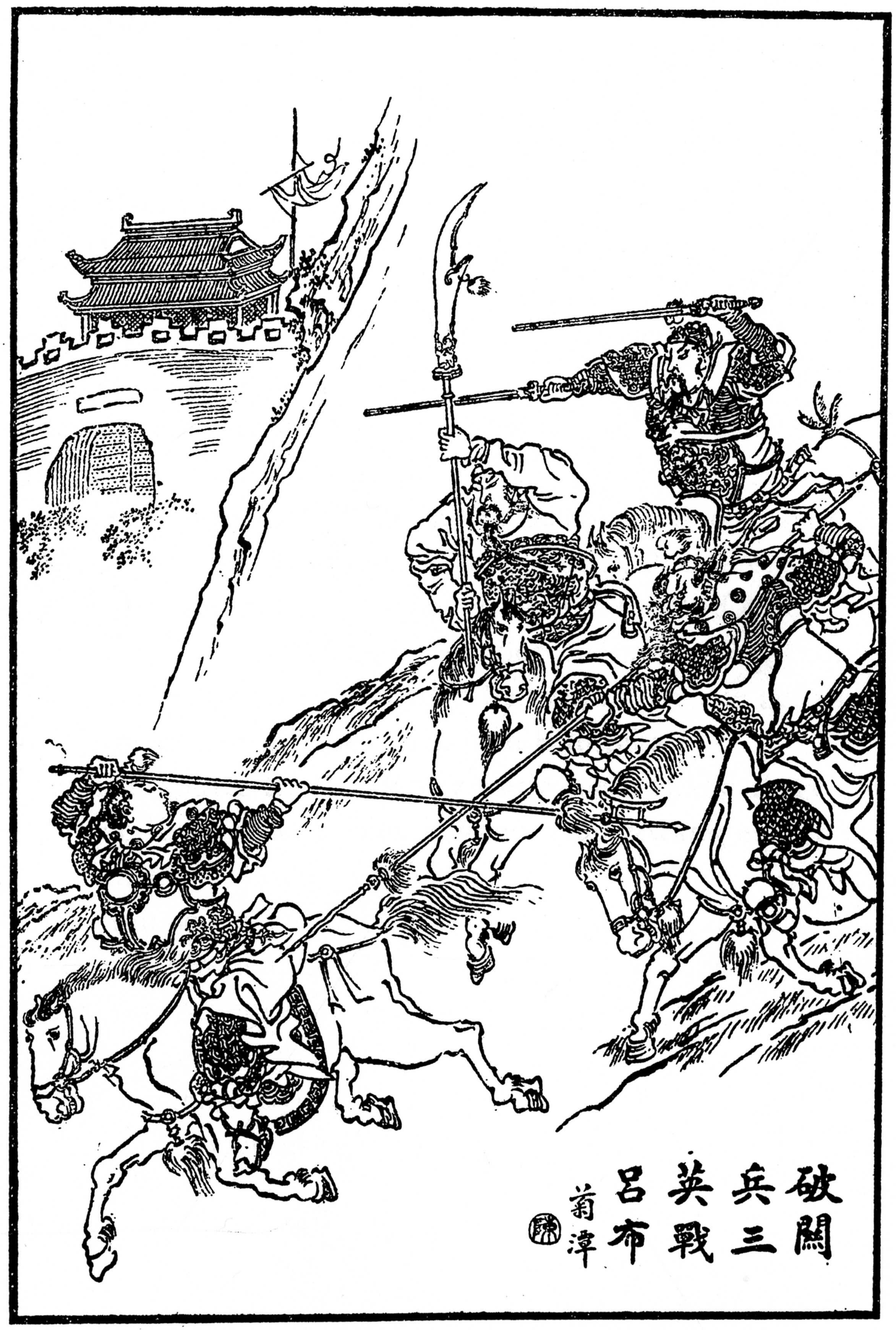 Lü Bu fighting the Three Brothers at Hulao Pass: Liu Bei (swords), Guan Yu (halberd), and Zhang Fei (spear).